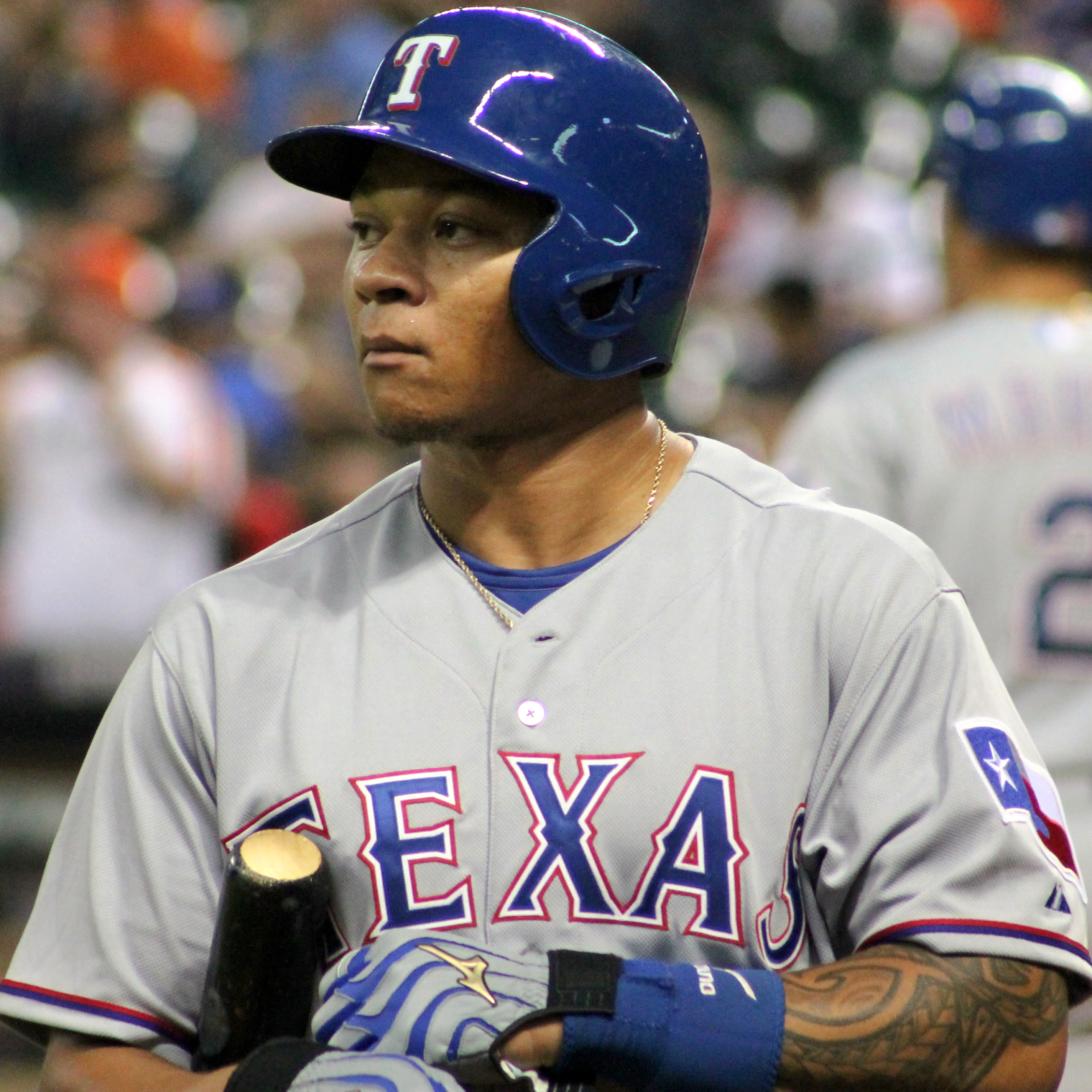 Professional baseball player Michael Choice at Minute Maid Park in August 2014.